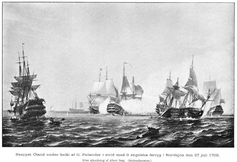 The seabattle of Orford Ness between the swedish ship "öland" and english ships.